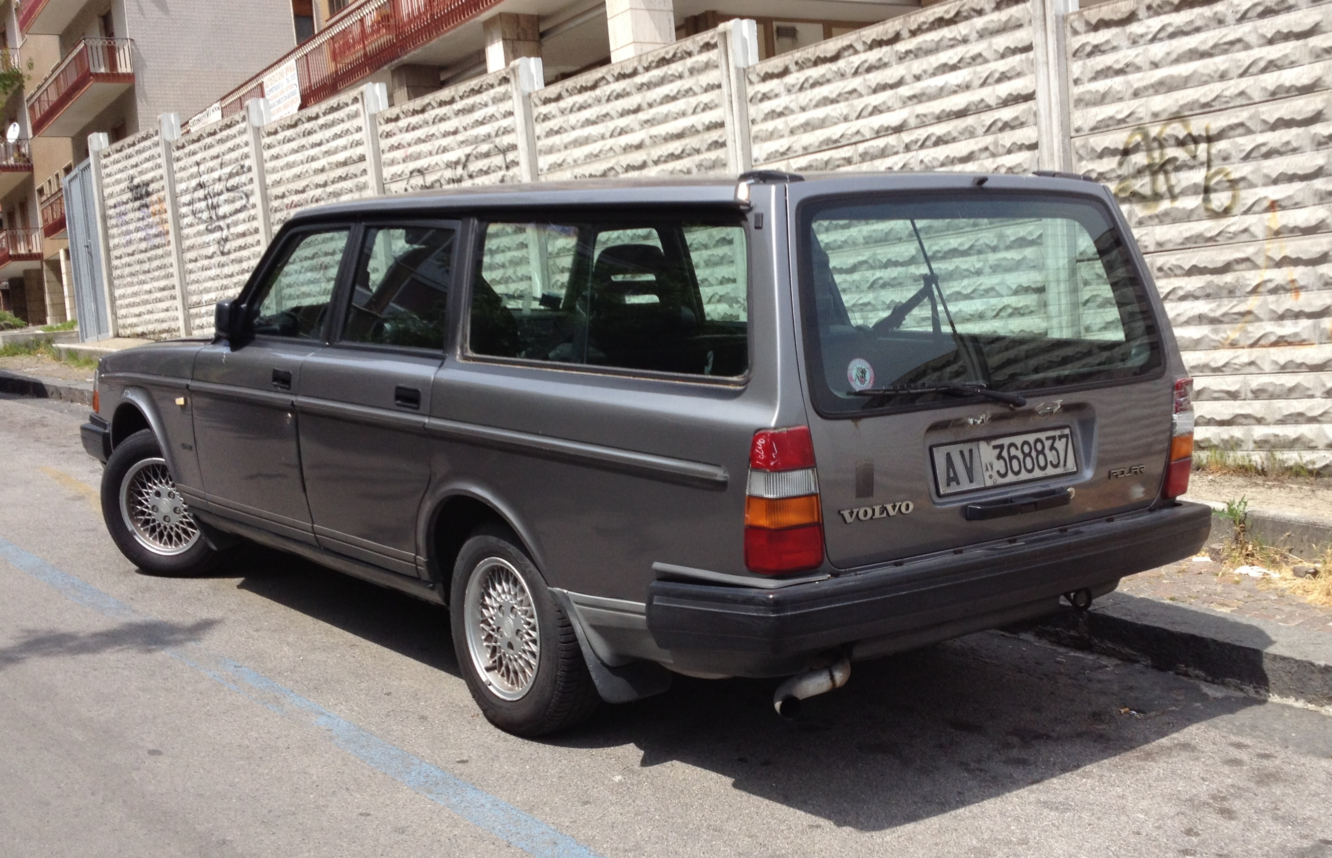 Volvo 240 Polar rear